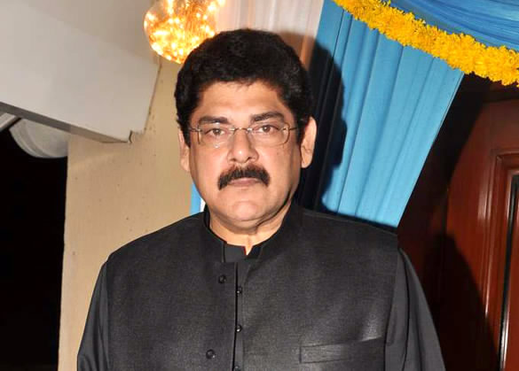 Pankaj Dheer at the birthday celebrations of Shomu Mitra